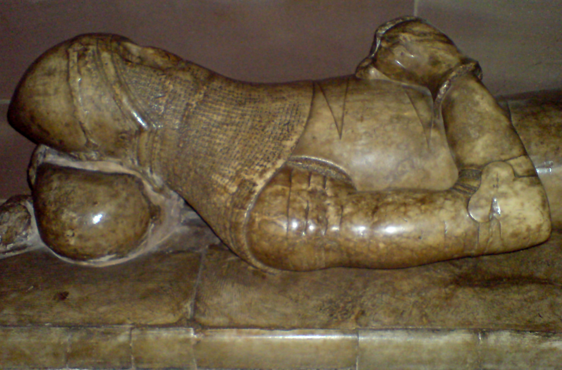 late 14th century alabaster effigy of Sir John de Birmingham, from his tomb in St Martin's in the Bull Ring, Birmingham